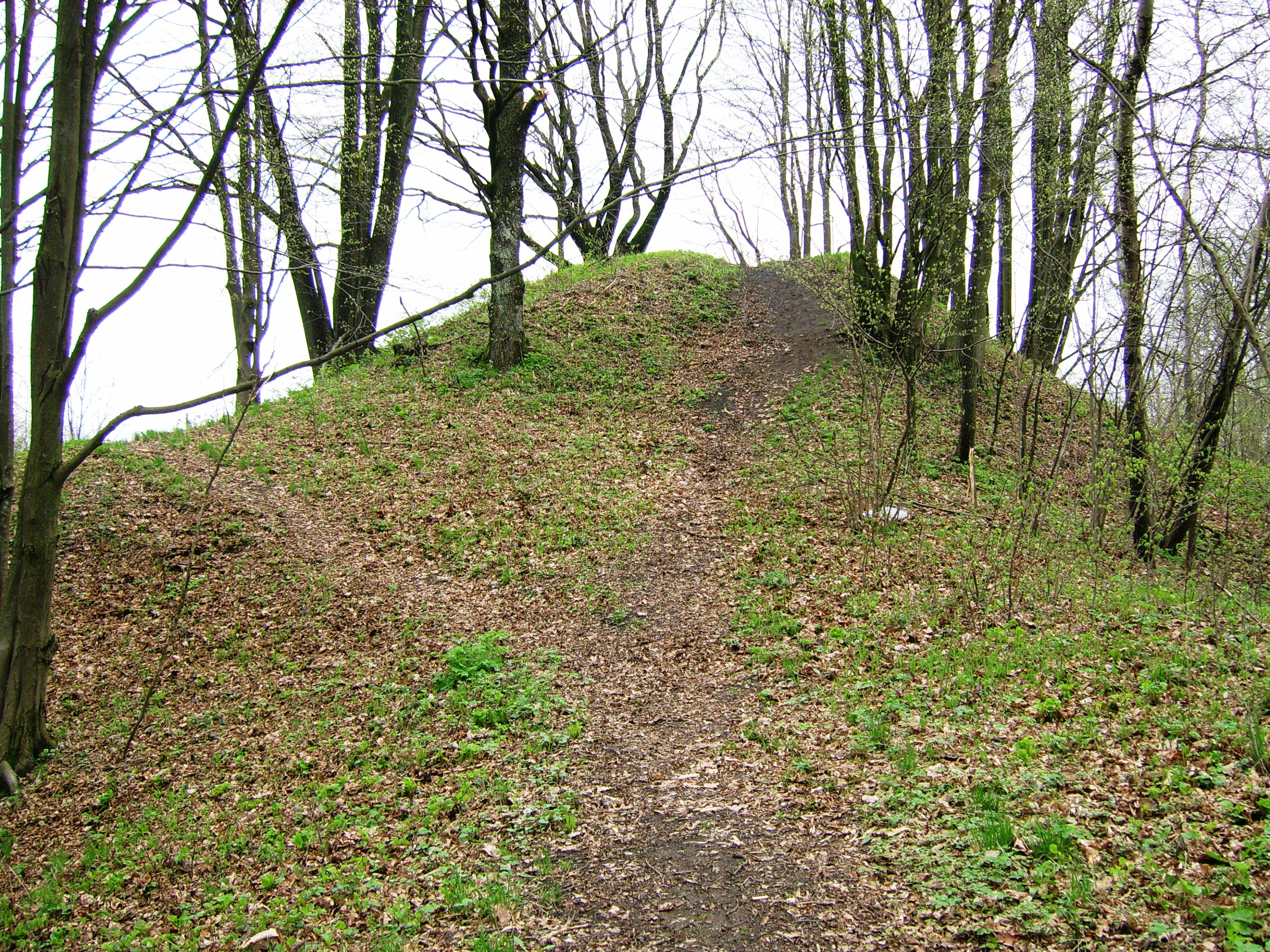 Hill fort in Dapkiškiai